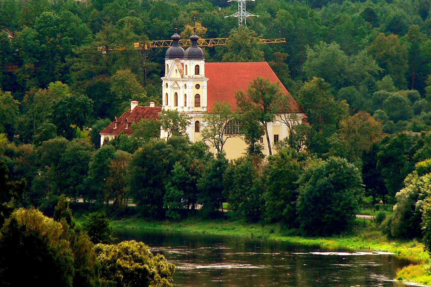 Trinitary Monastery in Vilnius, Lithuania